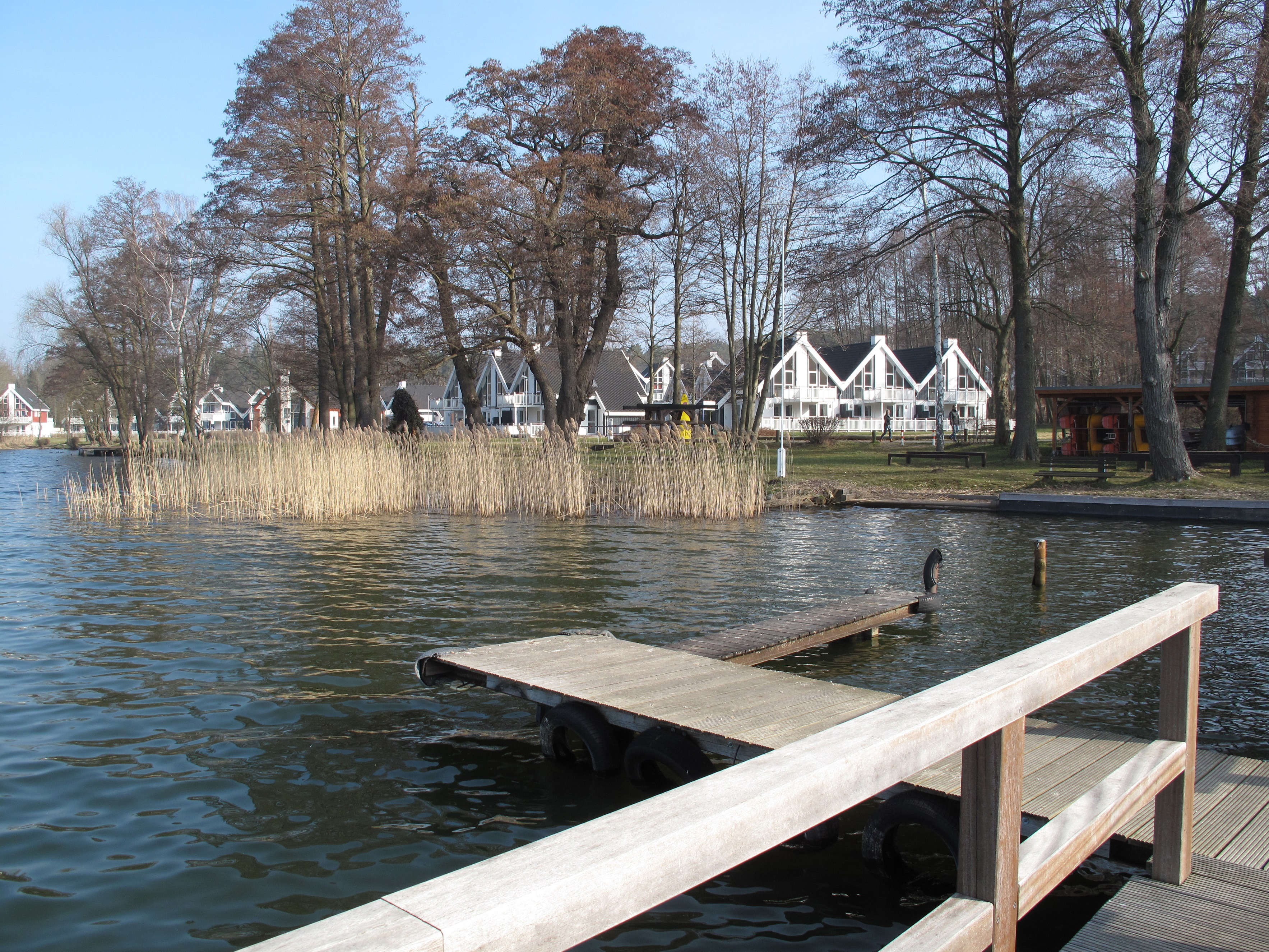 Holiday village Schlosspark Bad Saarow at the eastern bank of the Scharmützelsee in Theresienhof. Theresienhof is a part (settlement, estate; german: Wohnplatz) of Bad Saarow, District Oder-Spree, Brandenburg, Germany. Originating as the watermill Pieskow the Theresienhof was an agricultural establishment for a long time. Under the name Theresienhof it was first mentioned in documents in 1851. Since 1918 it was used as recreation resort, holiday home or educational training center. In 2008 the main building (a villa or manor house, often referred to as a castle) was demolished. The holiday village Schlosspark Bad Saarow with about 140 holiday houses and accomodations in scandinavian style has been created on the site of the Theresienhof since 2008.